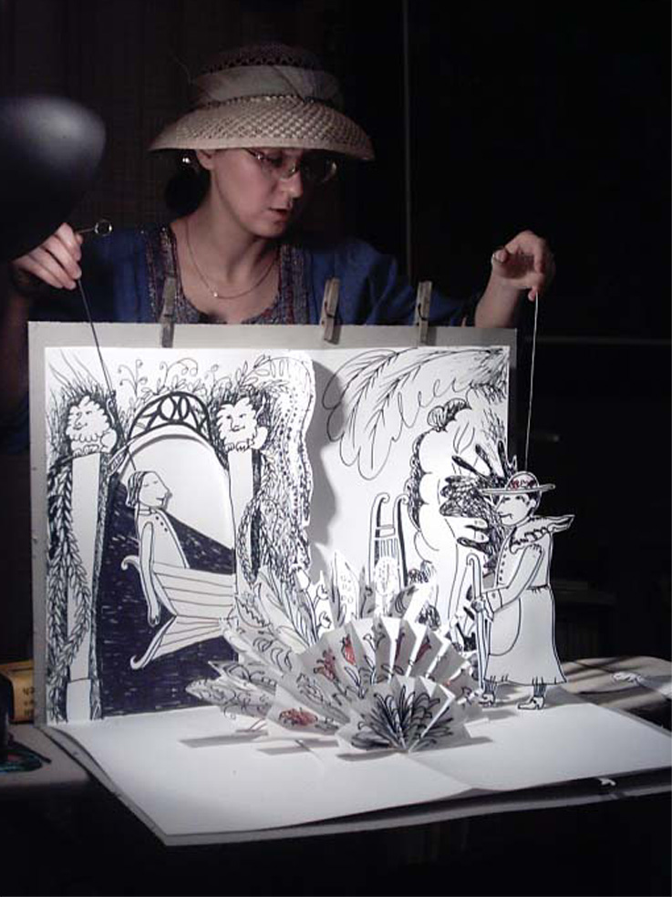 Paper theatre